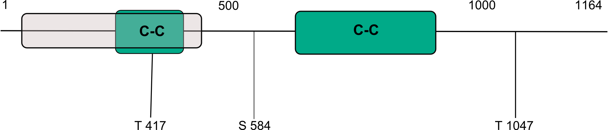 schematic structure of product of TSC1 gene (hamartin)